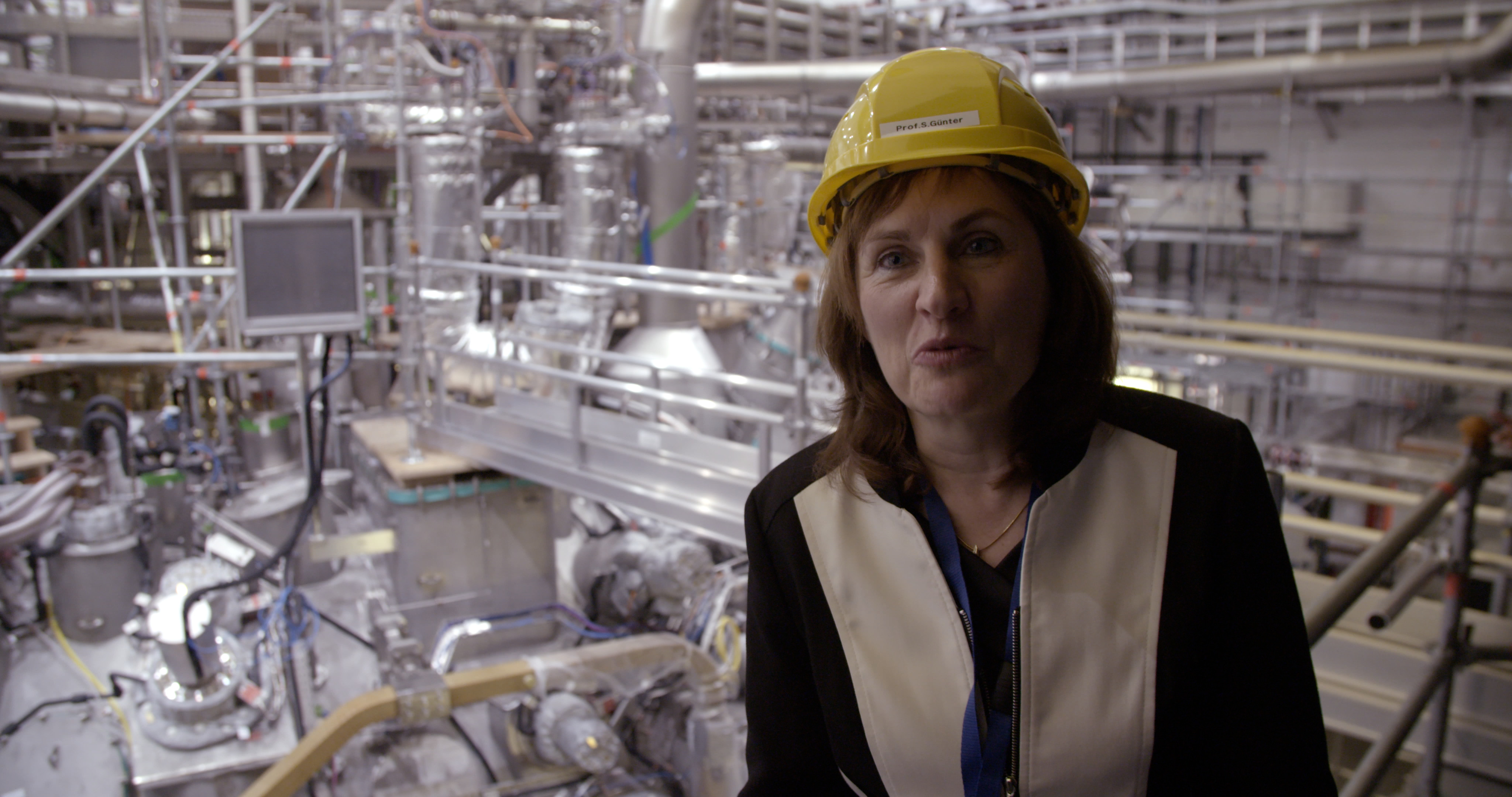 Sibylle Günter , Scientific Director of the Wendelstein 7-X stellarator in Greifswald.